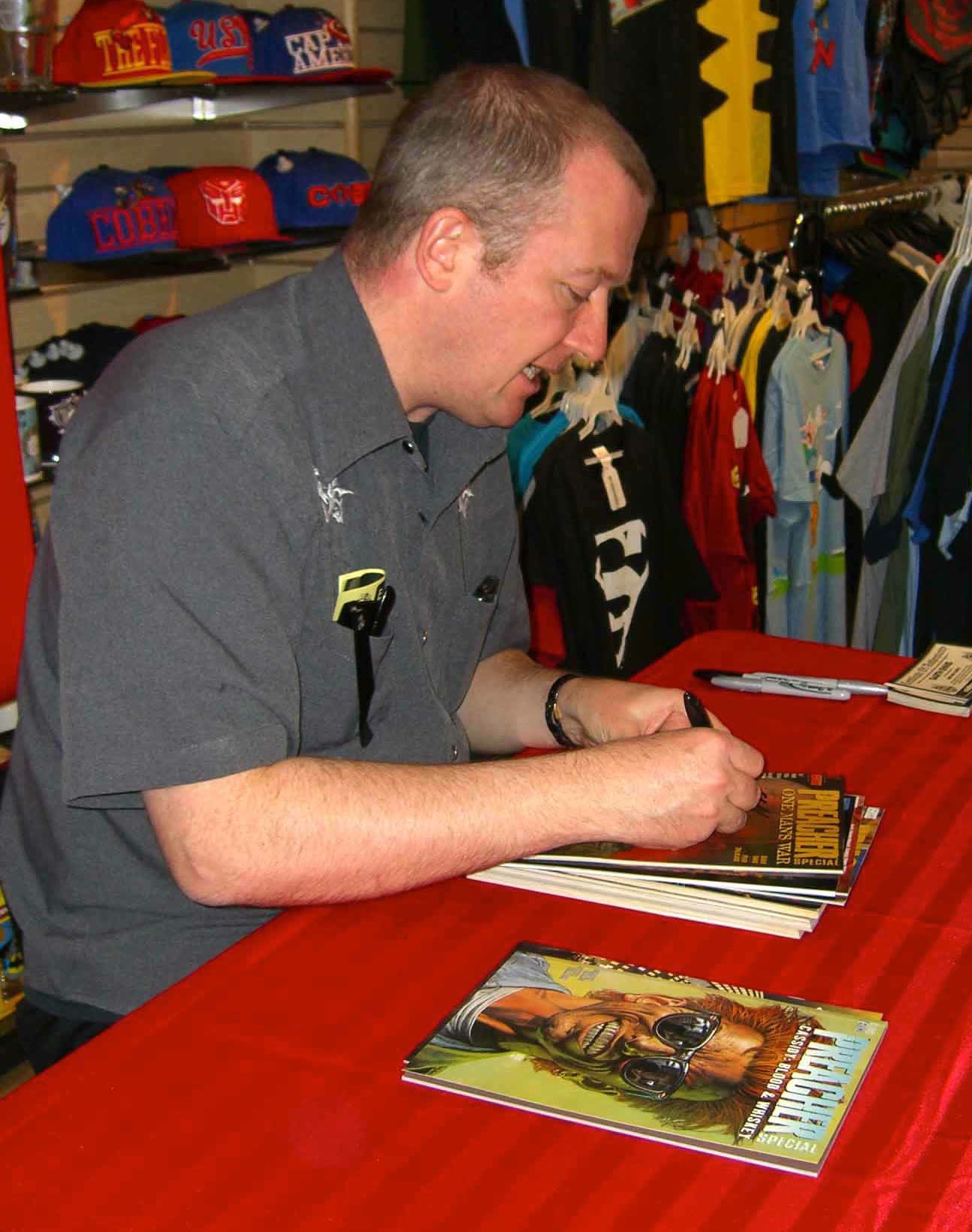 Writer Garth Ennis at an April 19, 2012 signing for The Shadow (volume 5) #1 at Midtown Comics Downtown in Manhattan. This photo was created by Luigi Novi. It is not in the public domain, and use of this file outside of the licensing terms is a copyright violation.